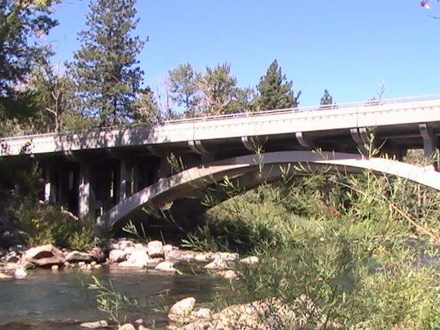 Nevada State Route 425 (Old US 40) bridge over the Truckee River, as seen from Crystal Peak Park in Verdi, Nevada.